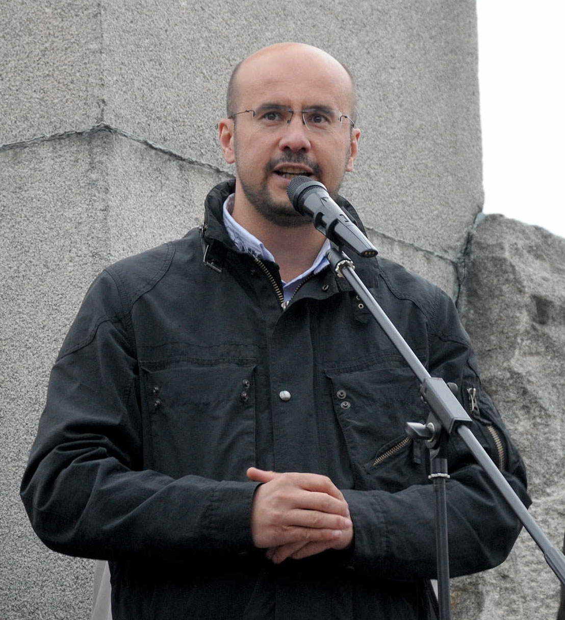 Serhiy Rudyk, Ukrainian activist